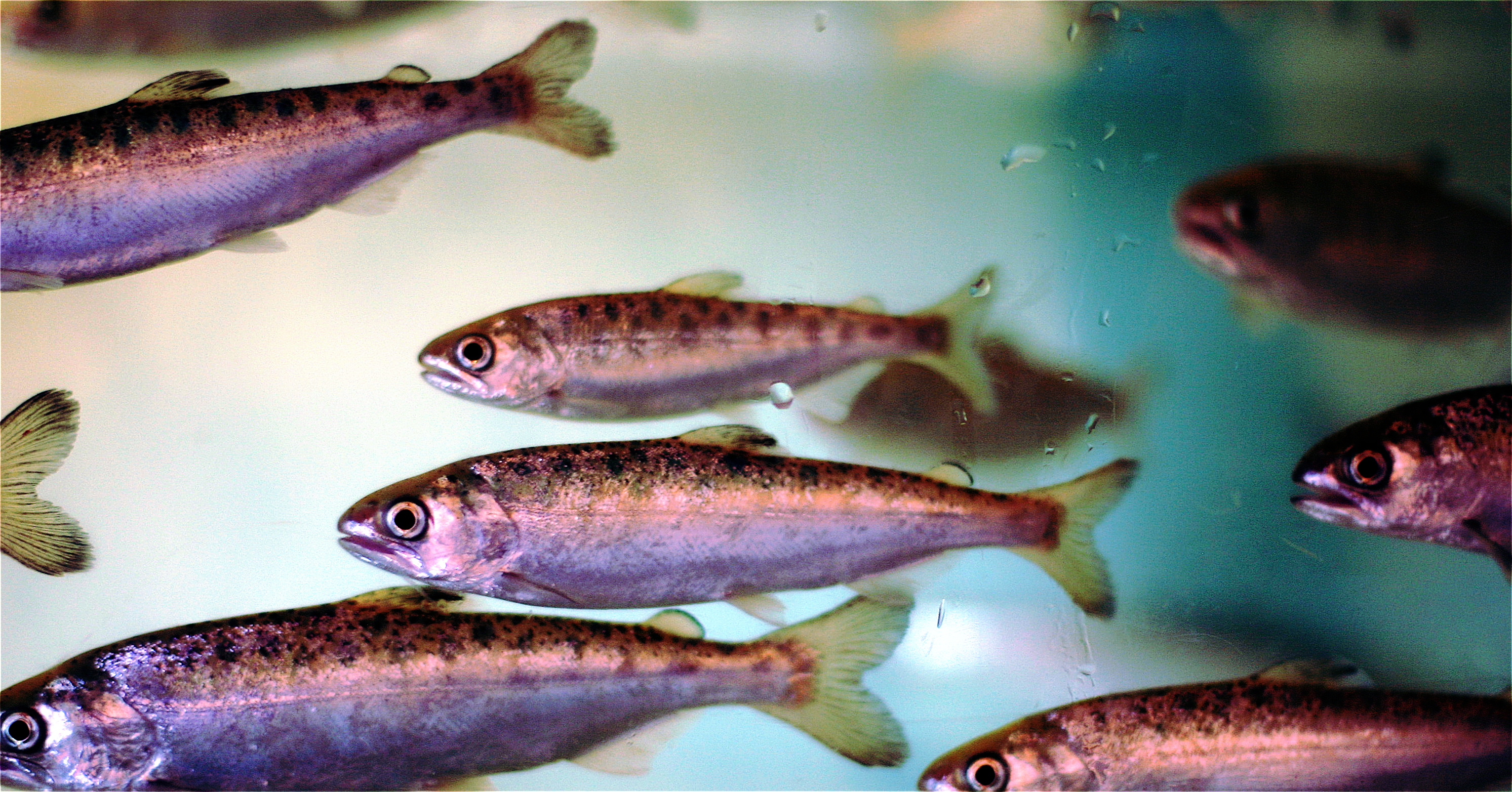 Coho Salmon (Oncorhynchus kisutch) smolts at the Seattle Aquarium.